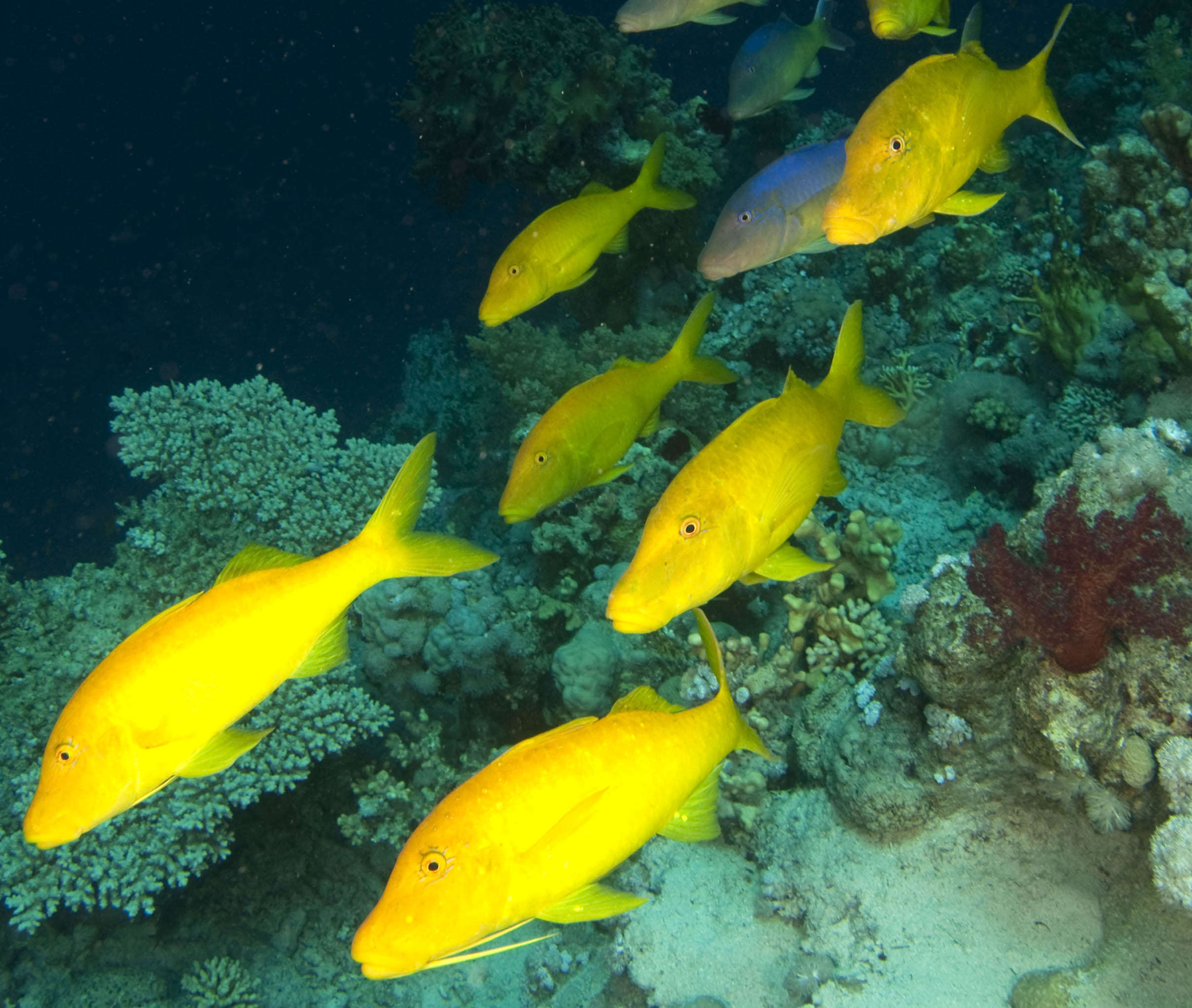 Yellow goatfish (Parupeneus cyclostomus)